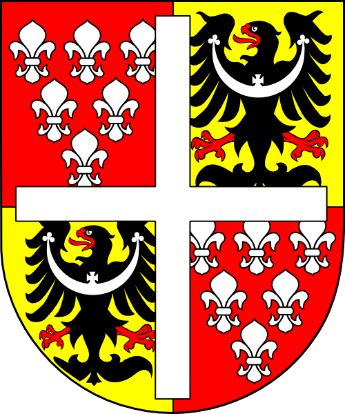 Coat of arms (shield only) of Bolesław cardinal Kominek, archbishop of Wrocław, Poland (1972 - 1974).